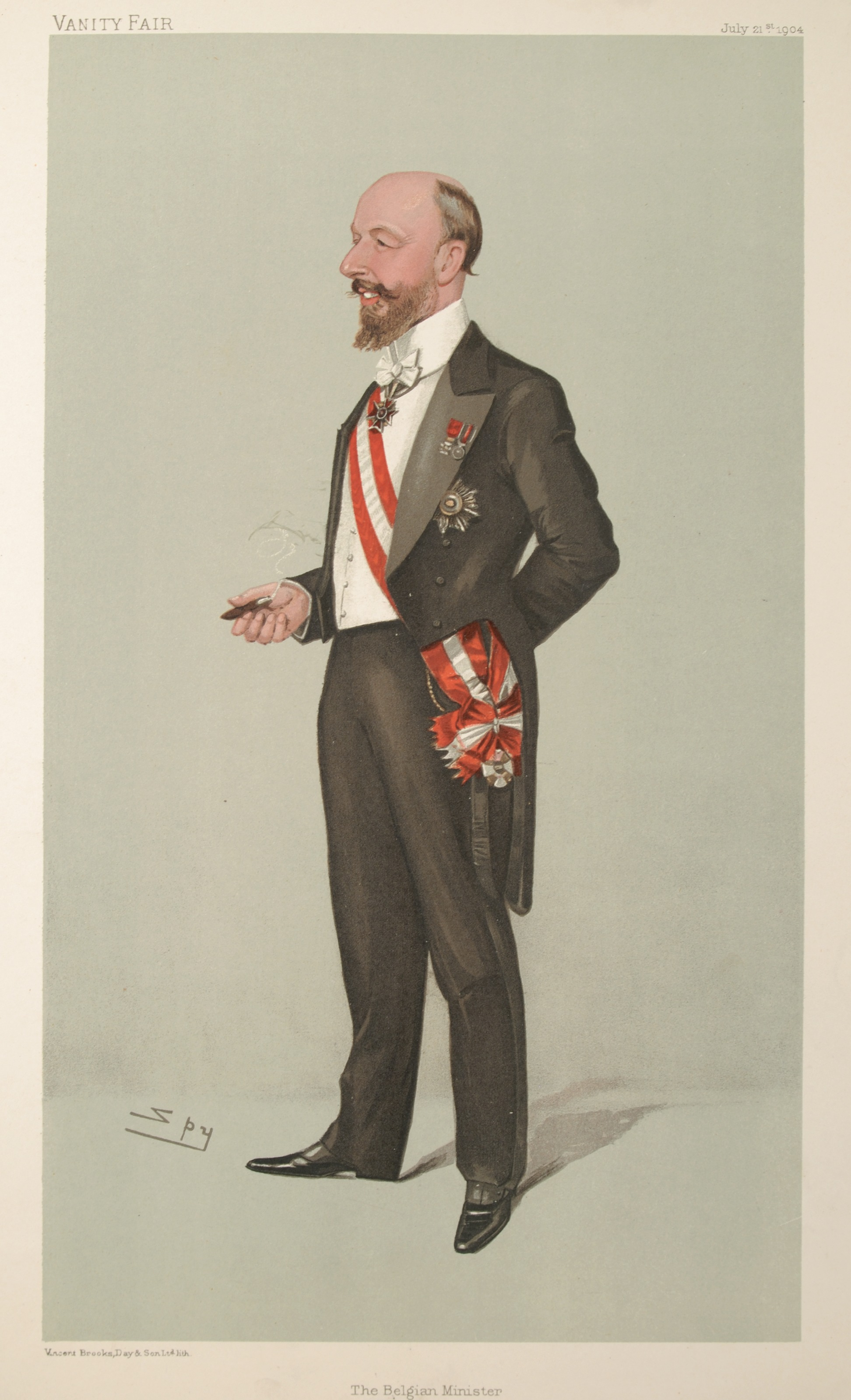 Caricature of Count Charles de Lalaing, Belgian Ambassador to the United Kingdom.